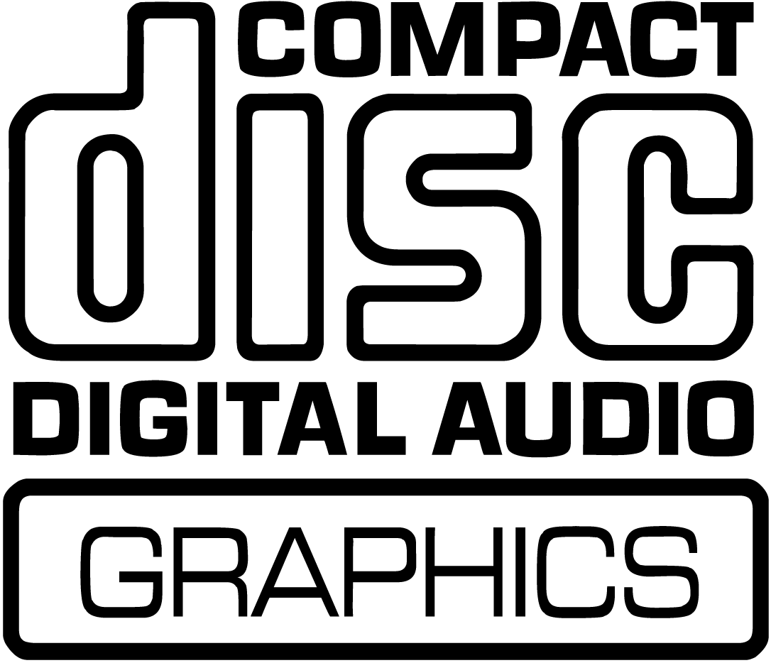 CD-Graphics logo